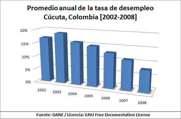 Unemployment rate for Cúcuta, Colombia [2002-2008]